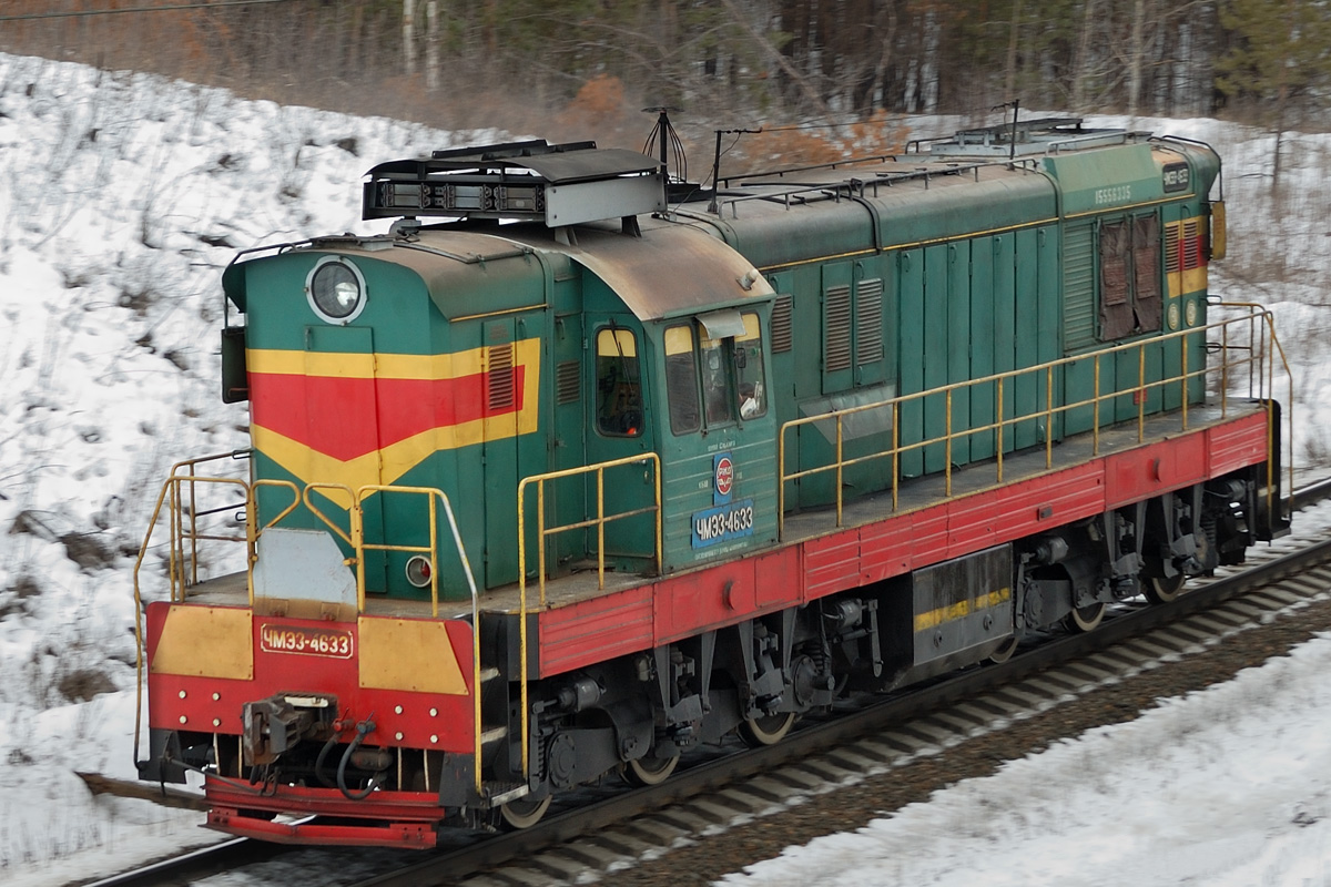 Shunter ChME3-4633, Kurumoch - Mastryukovo strech, Samara region, Russia